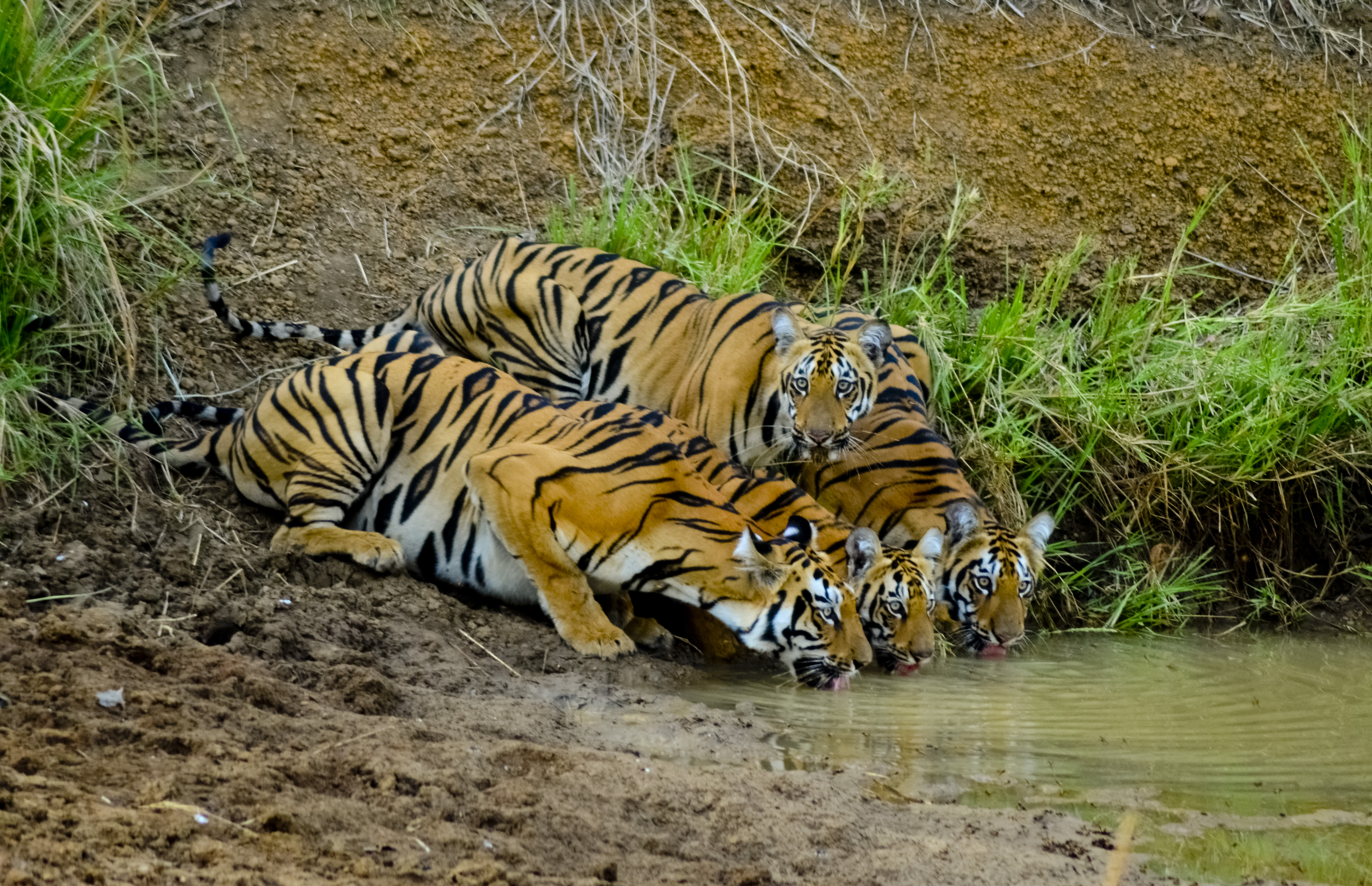 The mother tigress Sonam & her three cubs in the Tadoba Andhaari Tiger Reserve, India